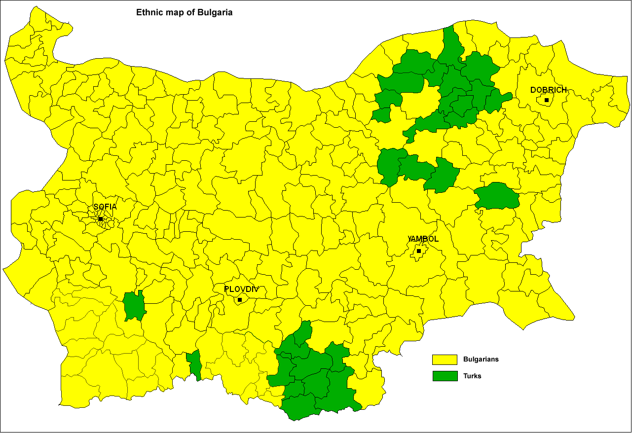 Ethnic map of Bulgaria (2001)